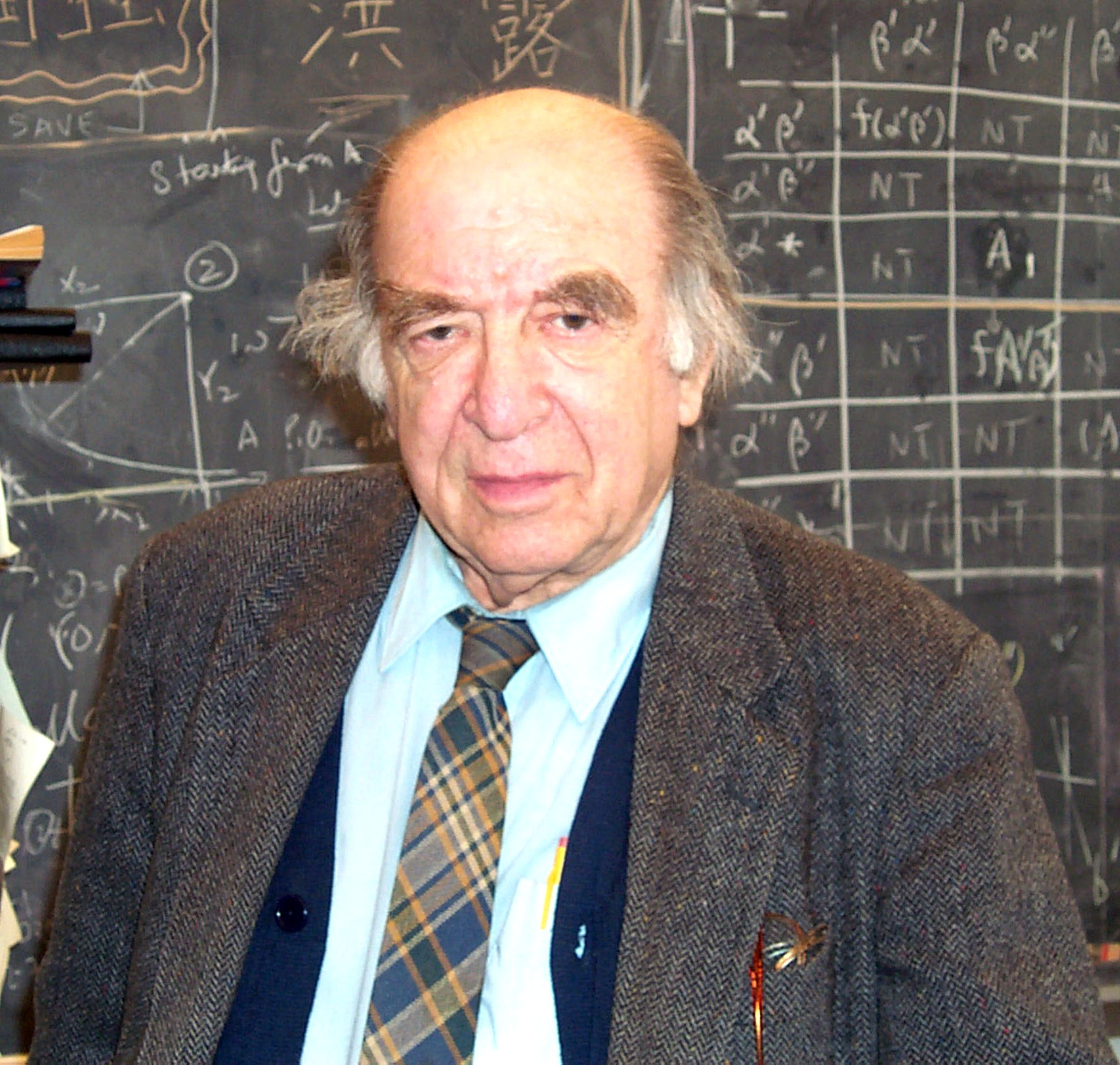 Leonid "Leo" Hurwicz (born August 21, 1917, Moscow) is Regents’ Professor of Economics Emeritus at the University of Minnesota and co-winner with Eric Maskin and Roger Myerson of the 2007 Nobel Prize in Economics.